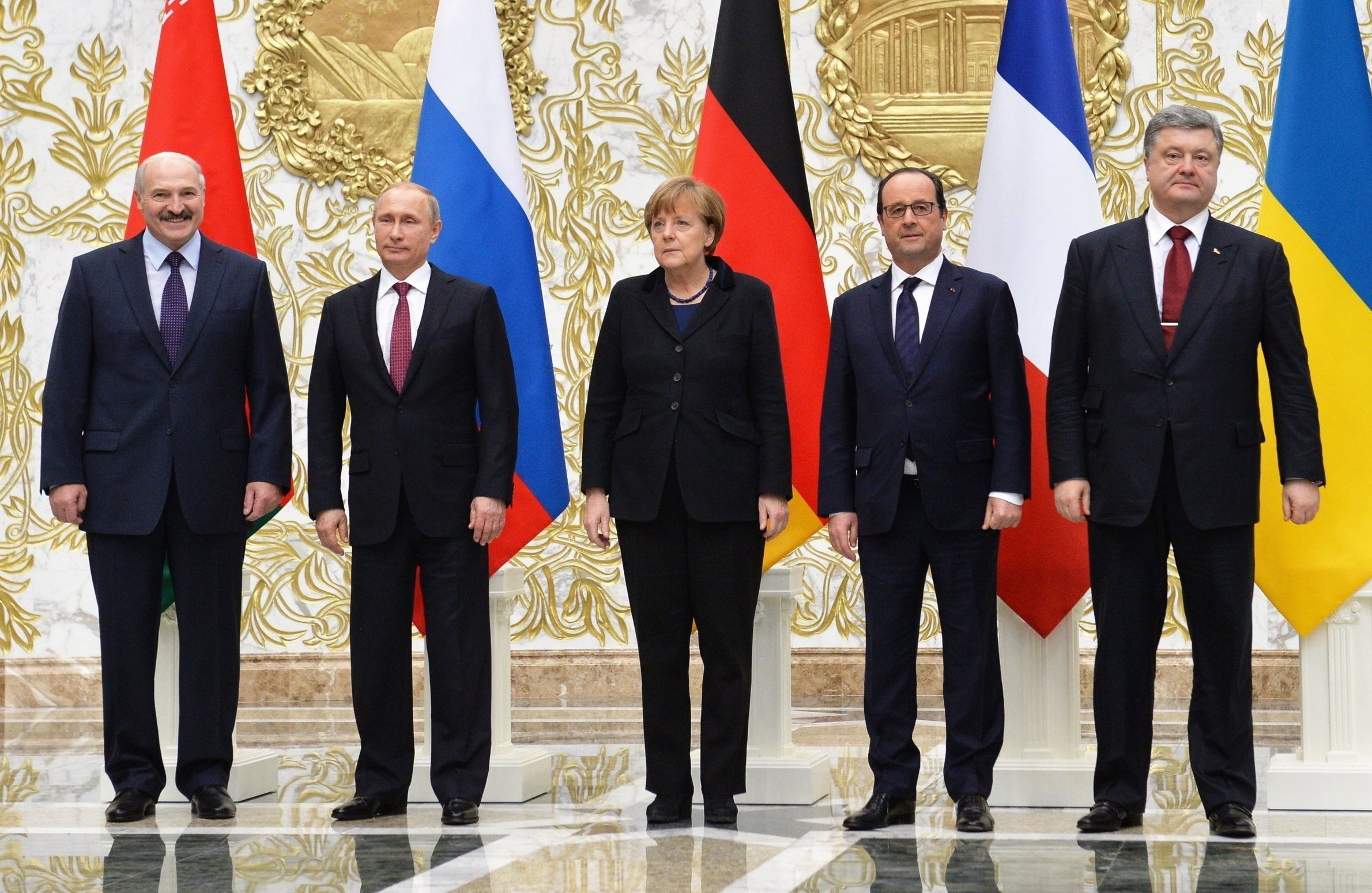 Normandy format talks in Minsk (February 2015): Angela Merkel, Francois Hollande, Petro Poroshenko and Vladimir Putin are take part in the talks on a settlement to the situation in Ukraine.